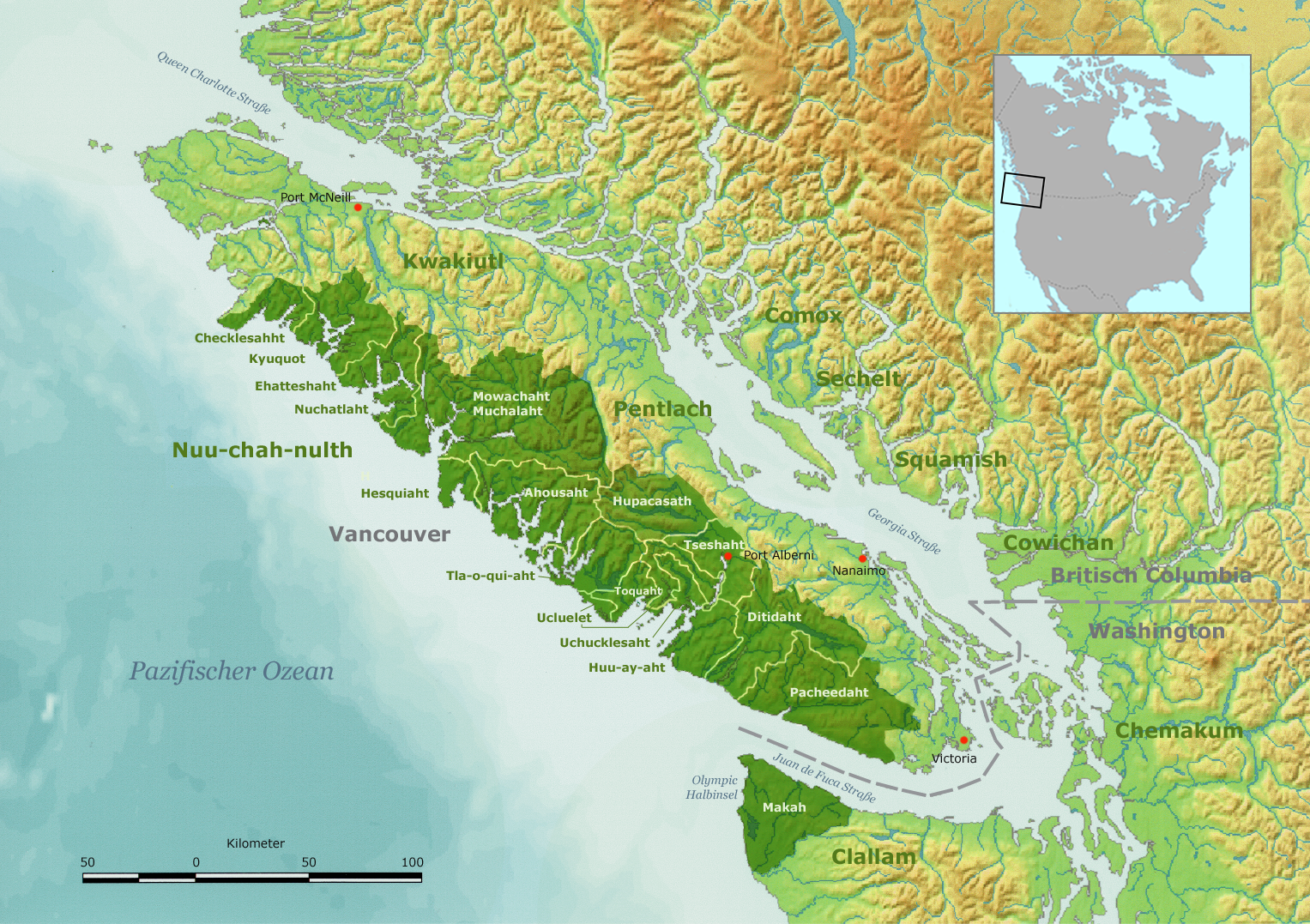 Map of Nootka tribal territories